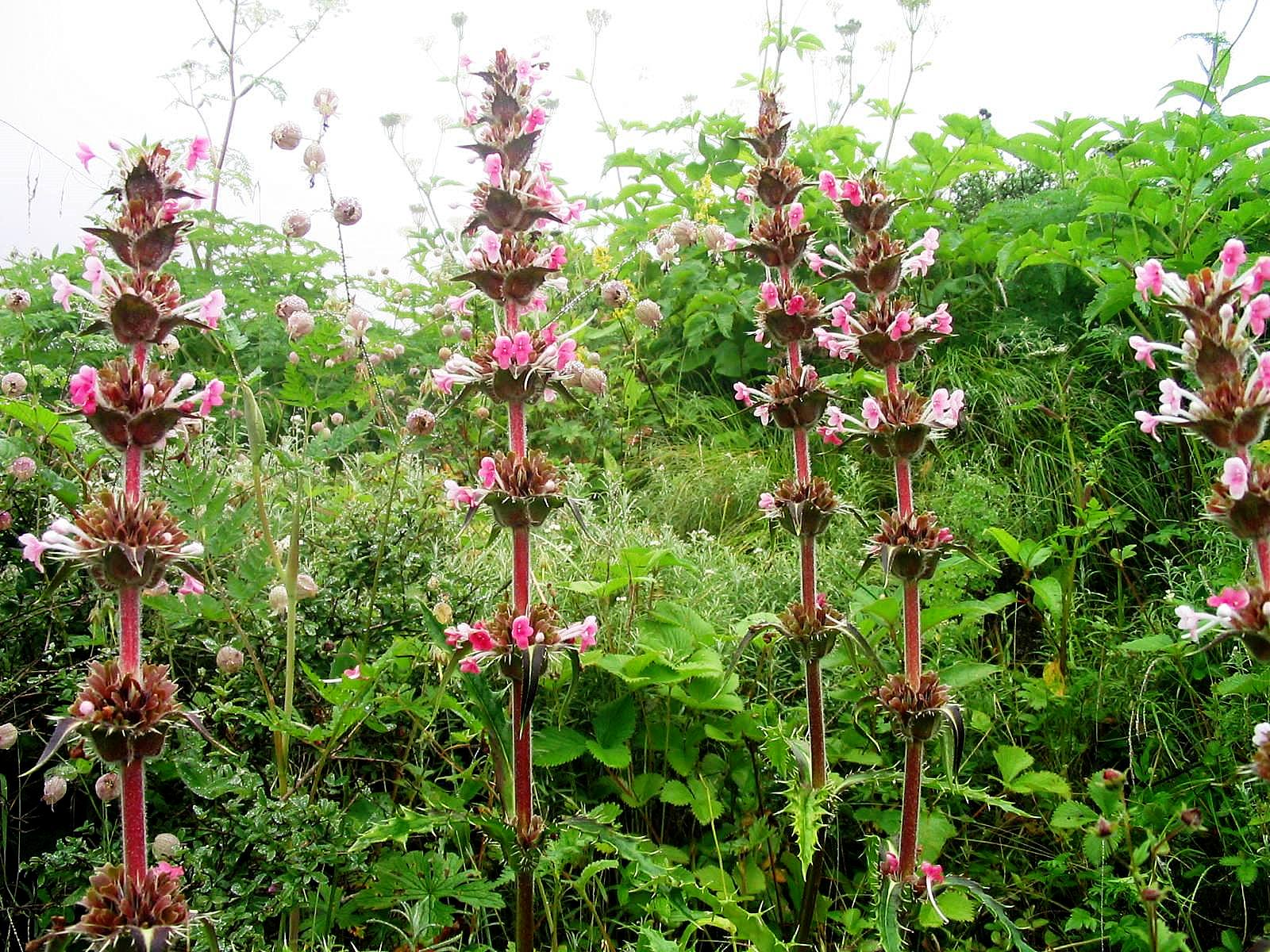 Clicked in in Valley of Flowers in August. Camera: Canon Powershot. Photographed by Pankaj Batra, New Delhi, India